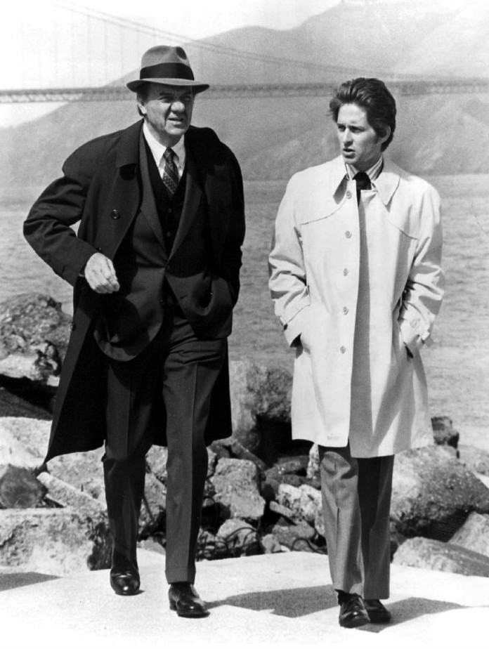 Photo of Karl Malden and Michael Douglas from the television program The Streets of San Francisco.